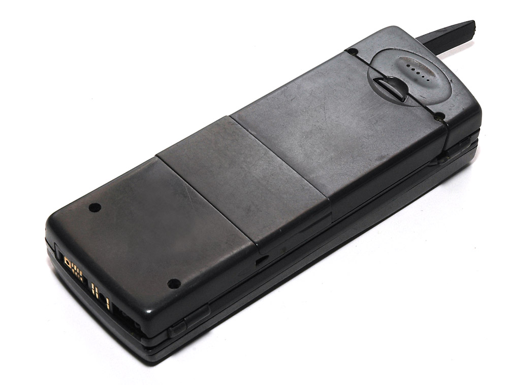 Nokia 9110